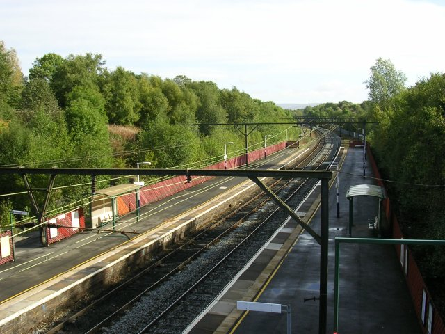 Looking east along the line at Fairfield railway station, Tameside.